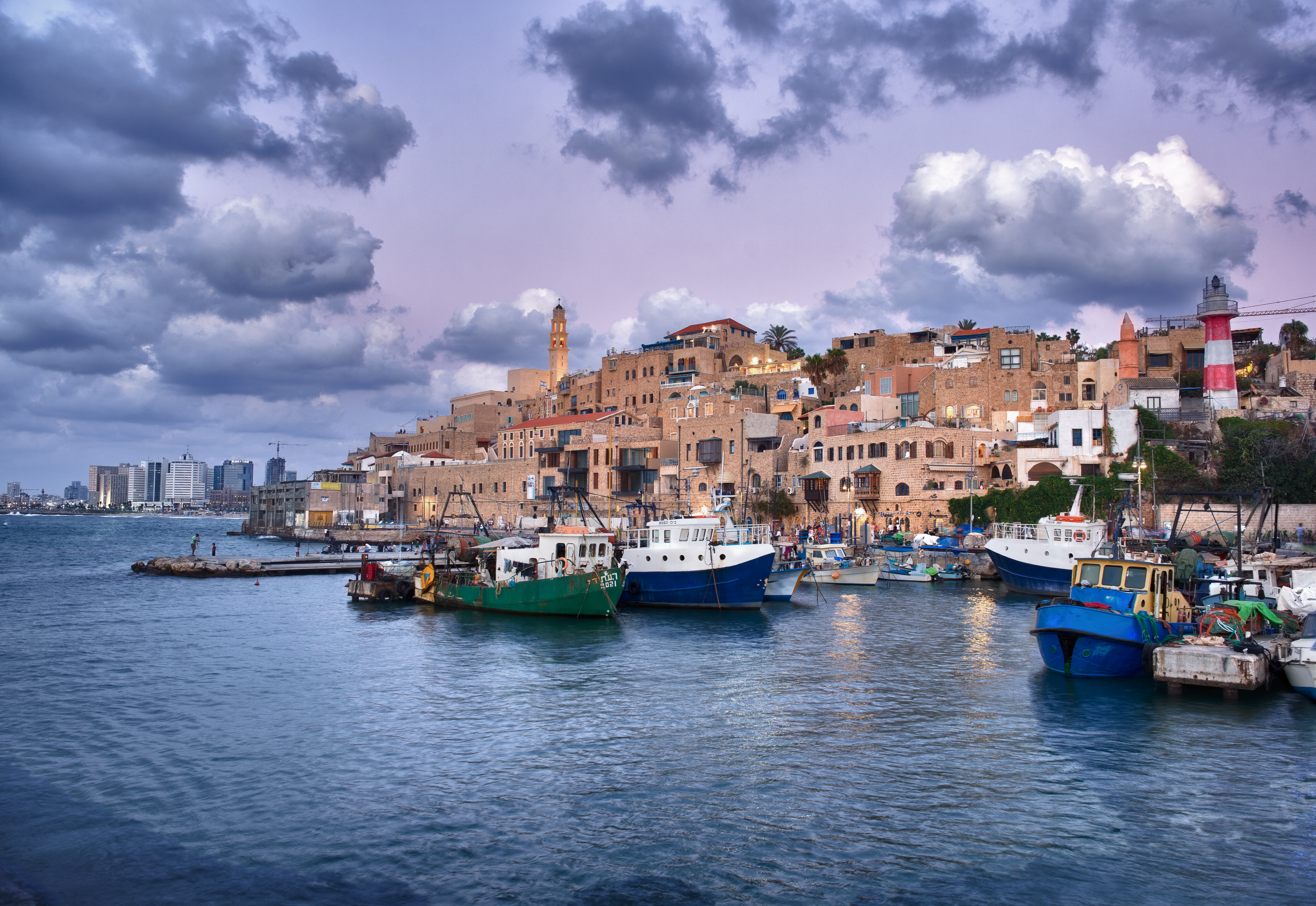 Port of Jaffa in Jaffa, Israel, with Tel Aviv in the background